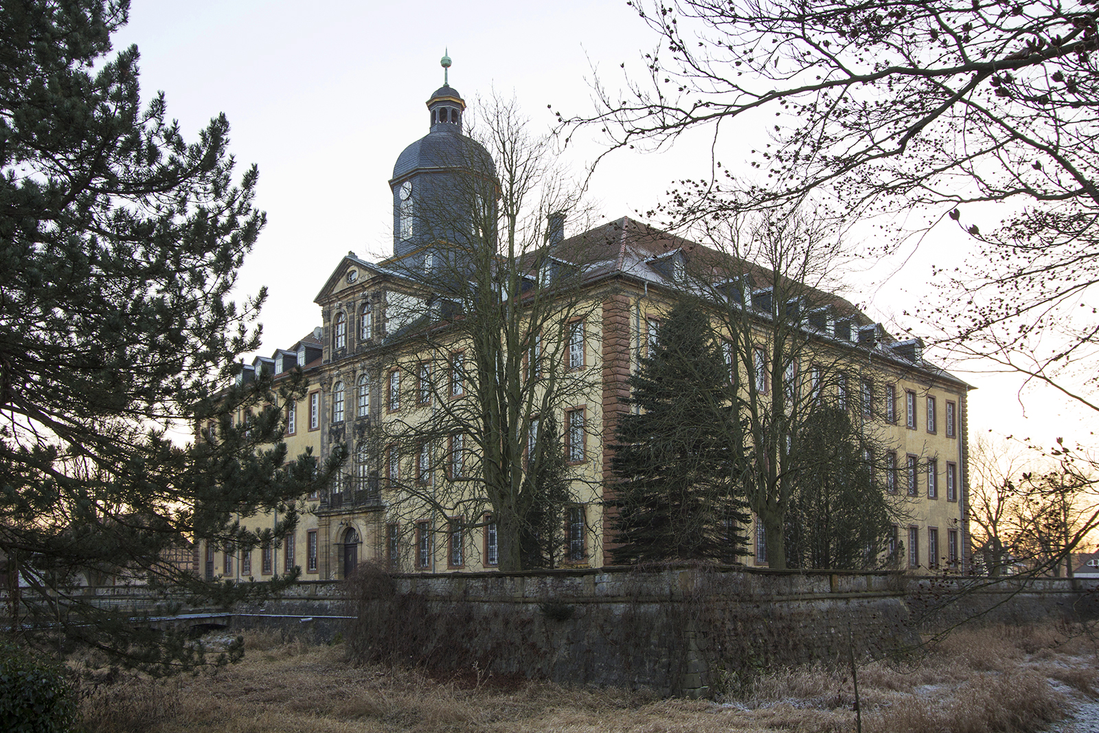 Friedrichswerth, Friedrichswerth palace, east and north facade